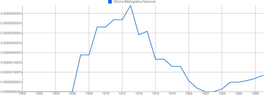 Frecuency literature Graphic about National Bibliographic Ofice 1900-1929 from Books Ngram Viewer by Google (Books predominantly in the Spanish language)